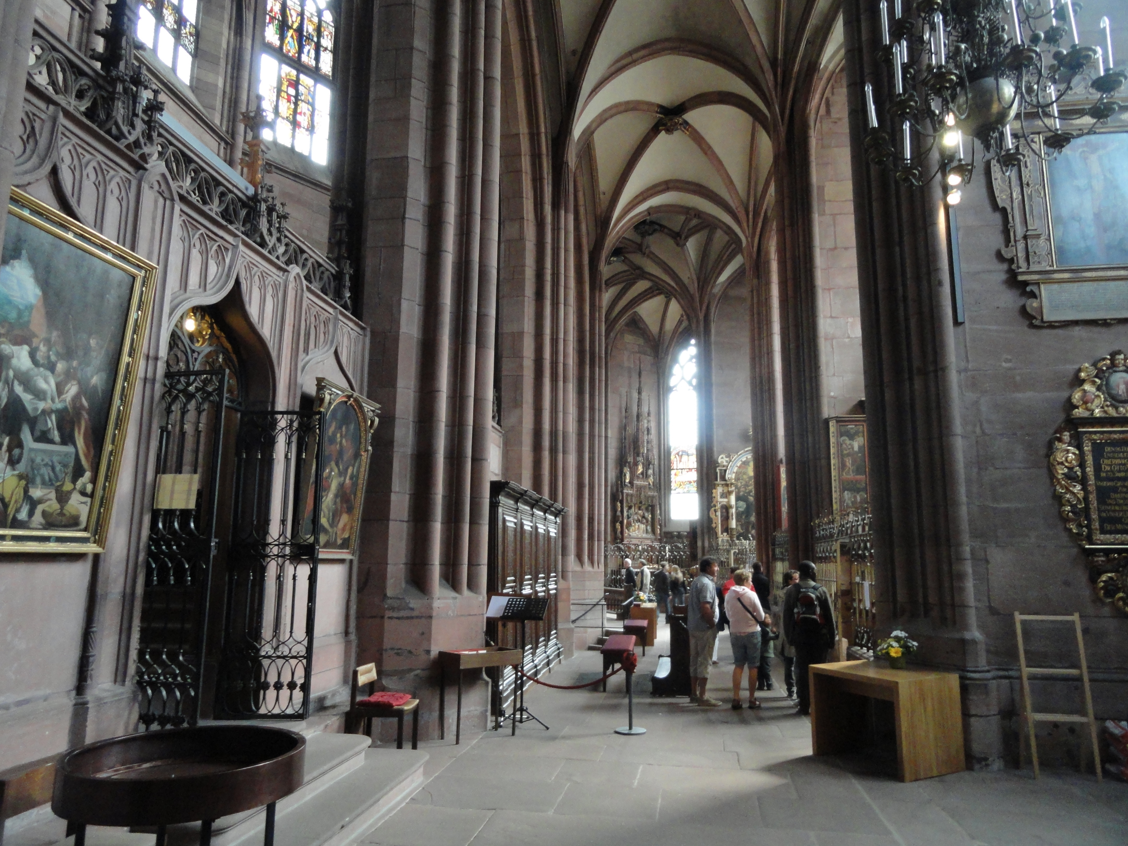 Interior of Freiburg Minster, Freiburg im Breisgau, Baden-Württemberg, Germany.